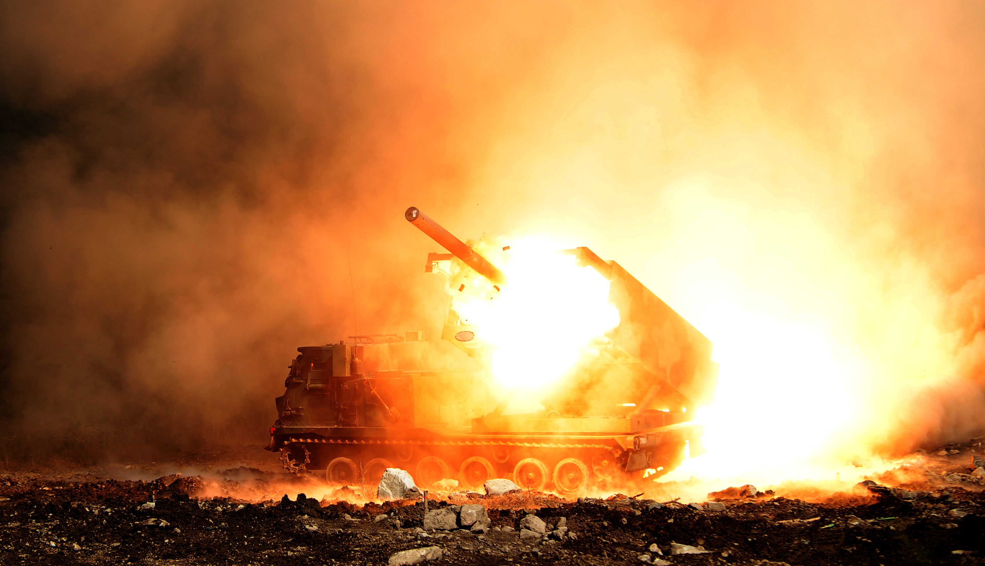 MLRS combat firing practice, Republic of Korea Army The 5th Artillery Brigade